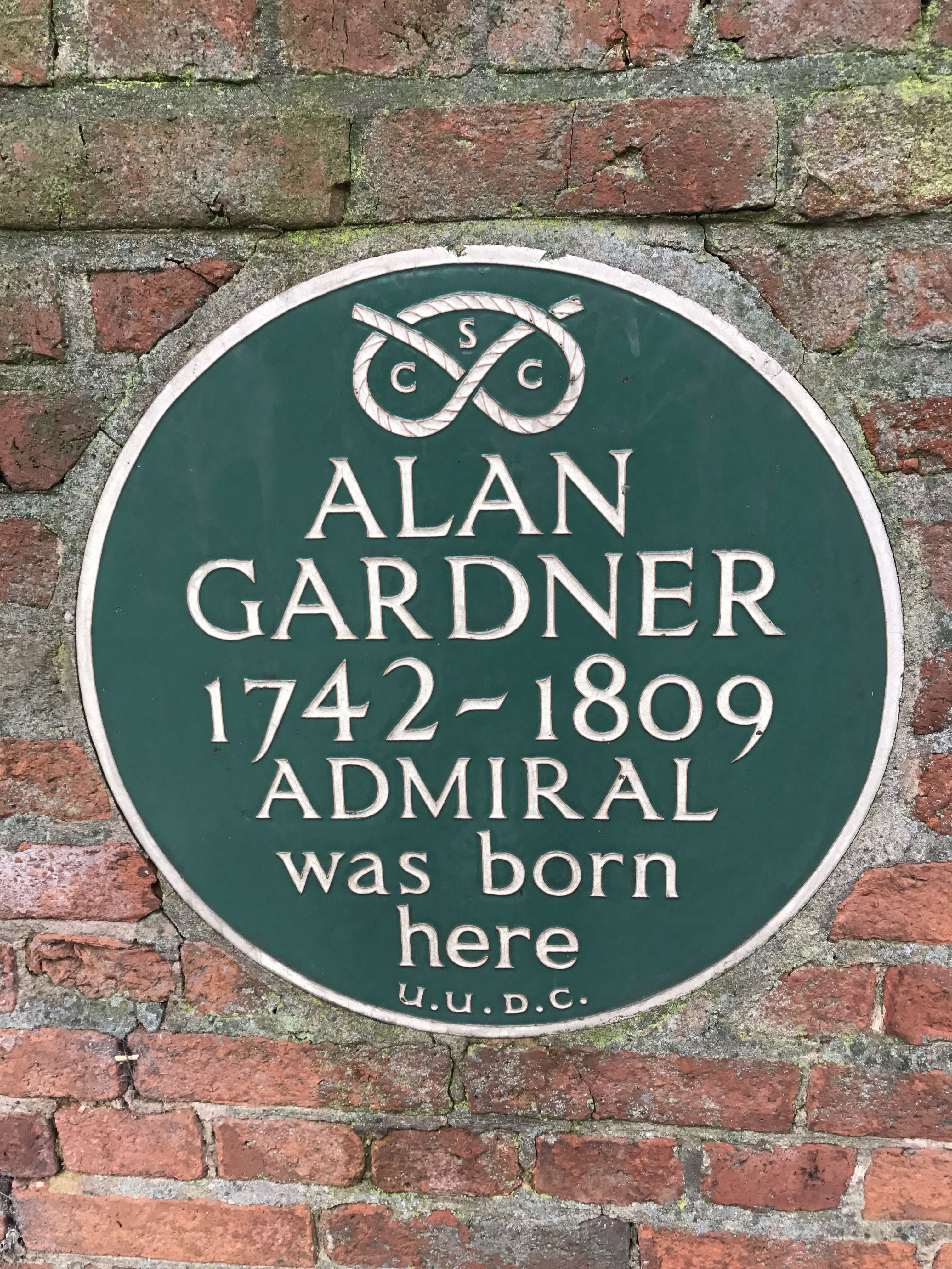 Plaque on the wall to the Manor House, Uttoxeter